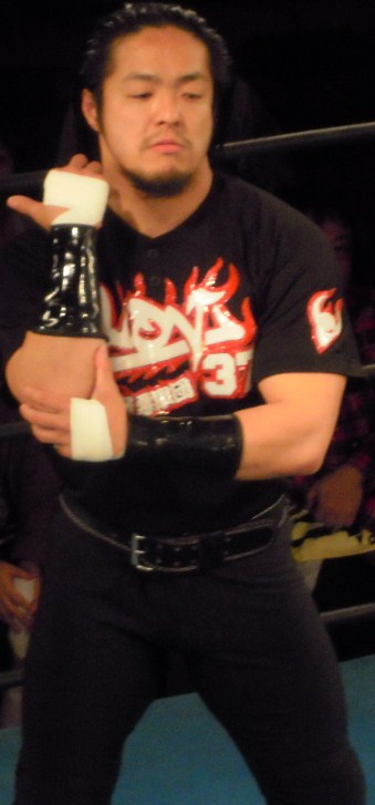 Japanese professional wrestler,Black Buffalo. Osaka Pro Wrestling Apr 16 2011 Osaka Minami Move On Arena.